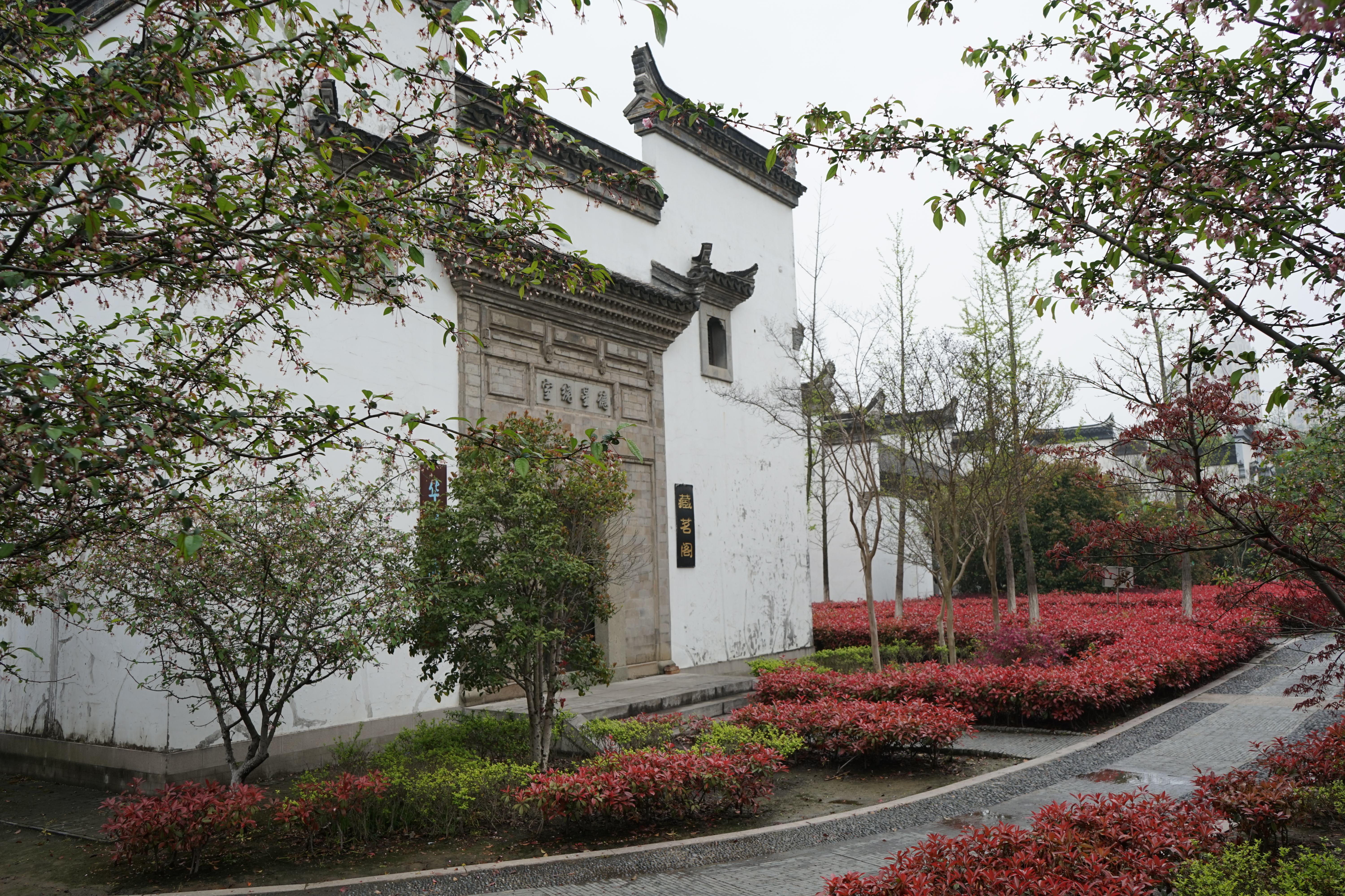 Hui style architectures